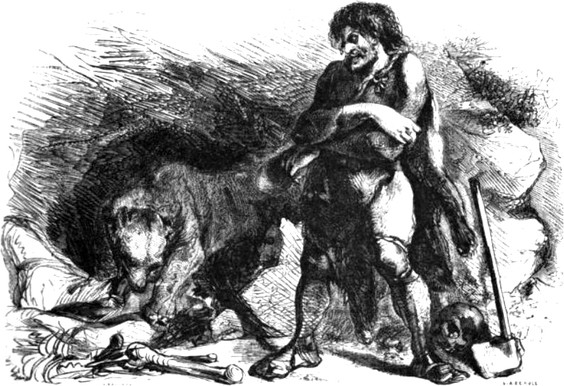 Han of Iceland (1823) by Victor Hugo (1840-1902)